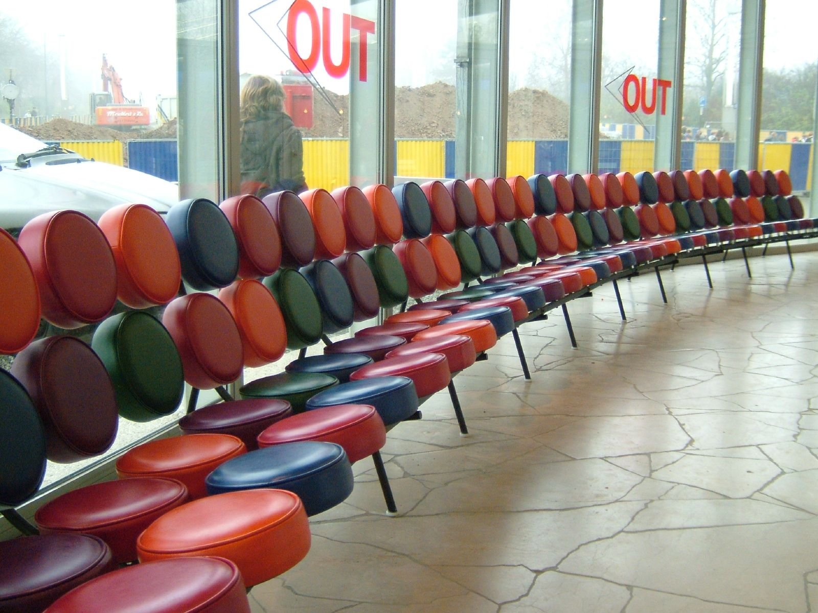 Marshmallow Sofa, George Nelson, speciale editie voor het Atomium